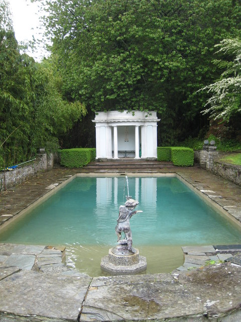 Swimming pool in the grounds of Port Eliot House